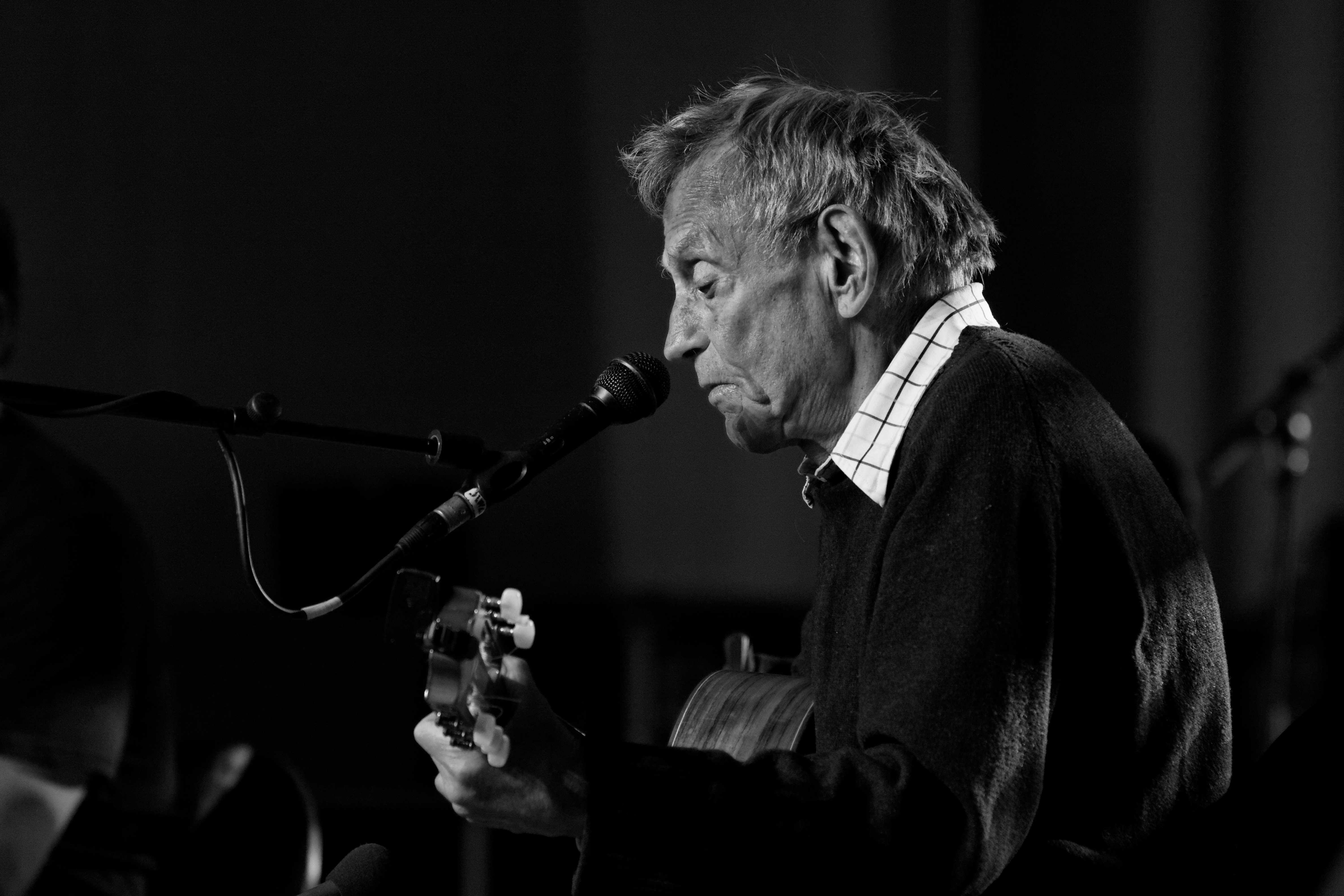 Graeme Allwright in concert at the 2012 Festival de Cornouaille.